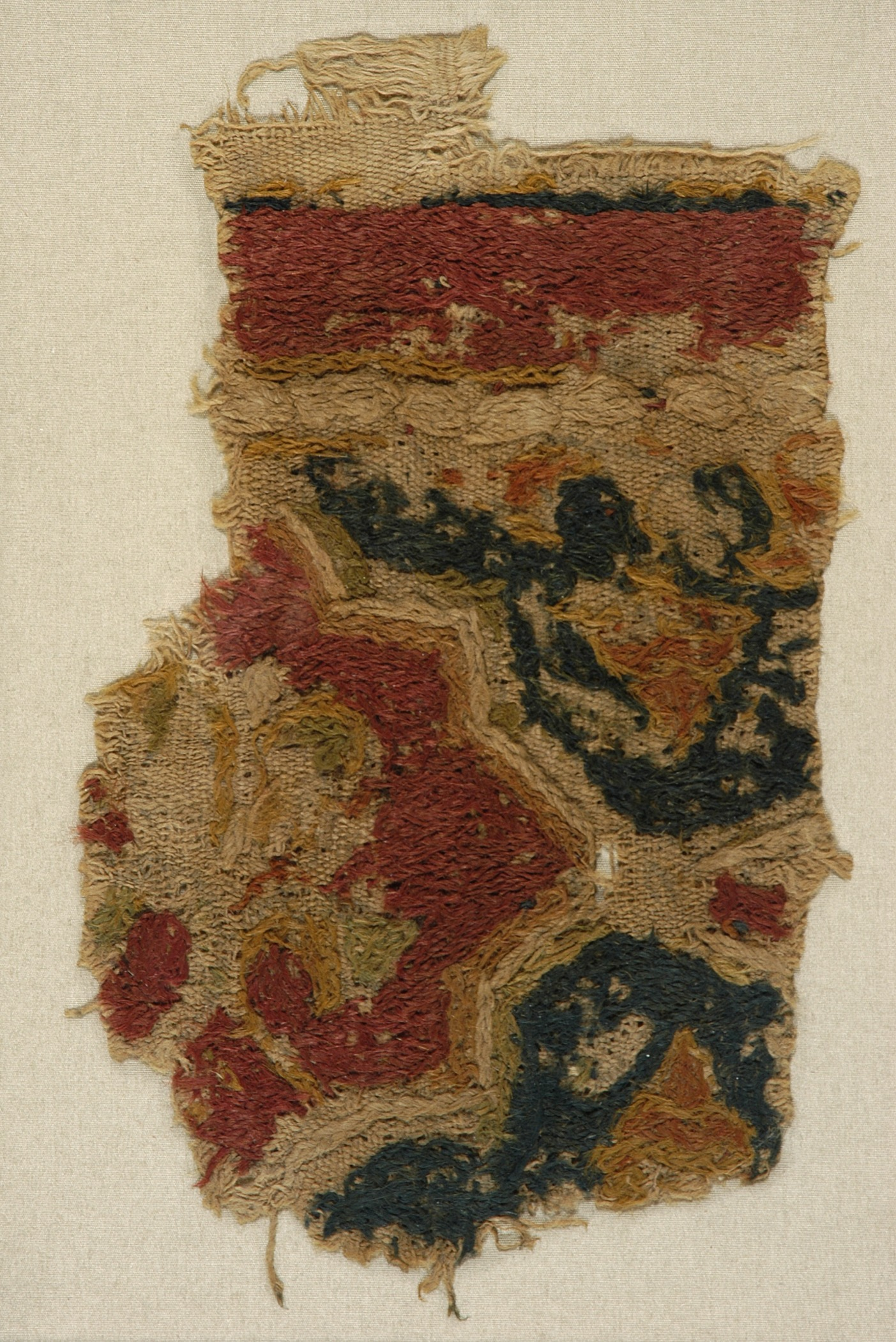 Egypt, Mamluk Dynasty, 1250–1517, 14th century Textiles; fragments Cotton plain weave with wool and cotton embroidery 7 1/4 x 4 1/2 in. (18.41 x 11.43 cm); Mount: 9 1/4 x 6 3/4 in. (23.49 x 17.14 cm) The Madina Collection of Islamic Art, gift of Camilla Chandler Frost (M.2002.1.706) Costume and Textiles